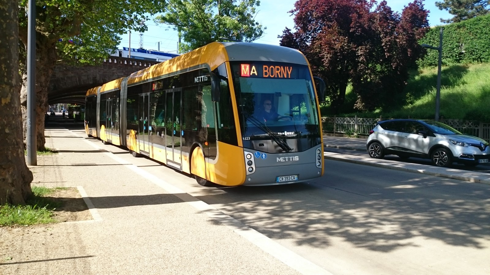 "Tram-like"on the network Le Met' in Metz.